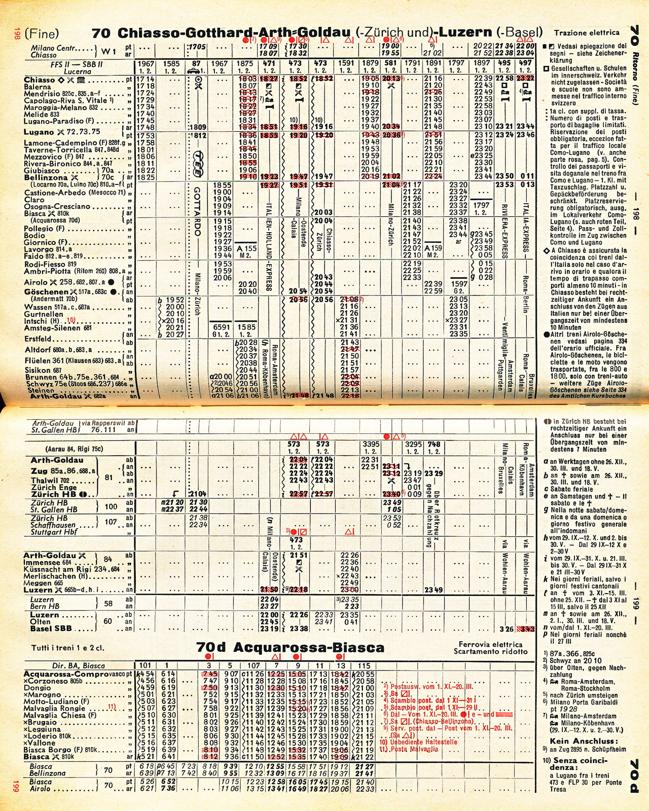 Timetable (mail edition) of the Acquarossa-Biasca railway, winter 1963/1964. Northbound TEE Gottardo can also be seen in the upper table.